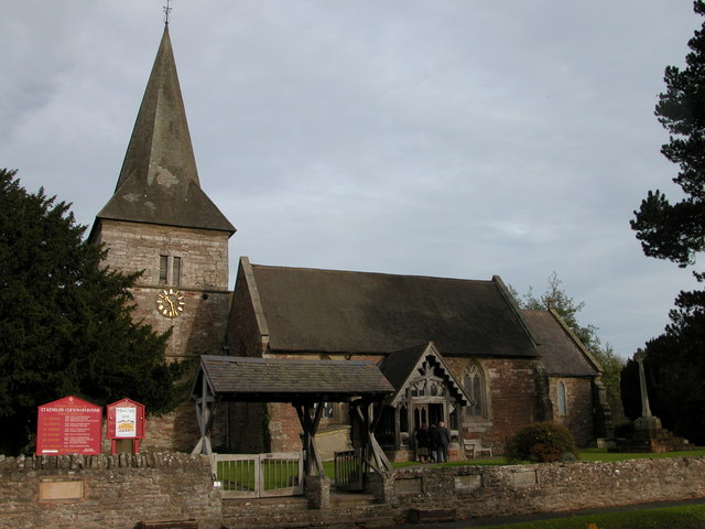 Clifton-upon-Teme church is dedicated to St Kenelm. The church dates from the 13th century, however, it underwent some restoration between 1847-53.